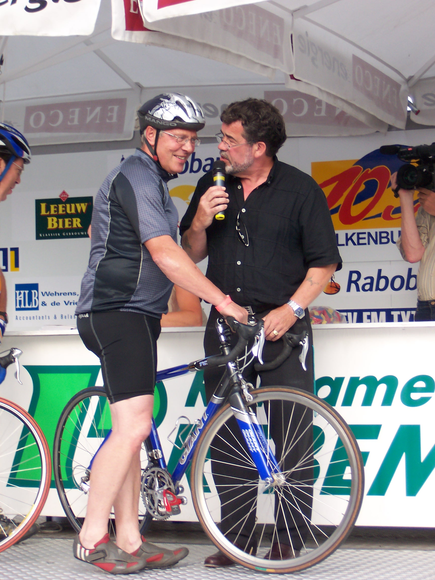 Former cyclist Jan Krekels in Valkenburg 2006.